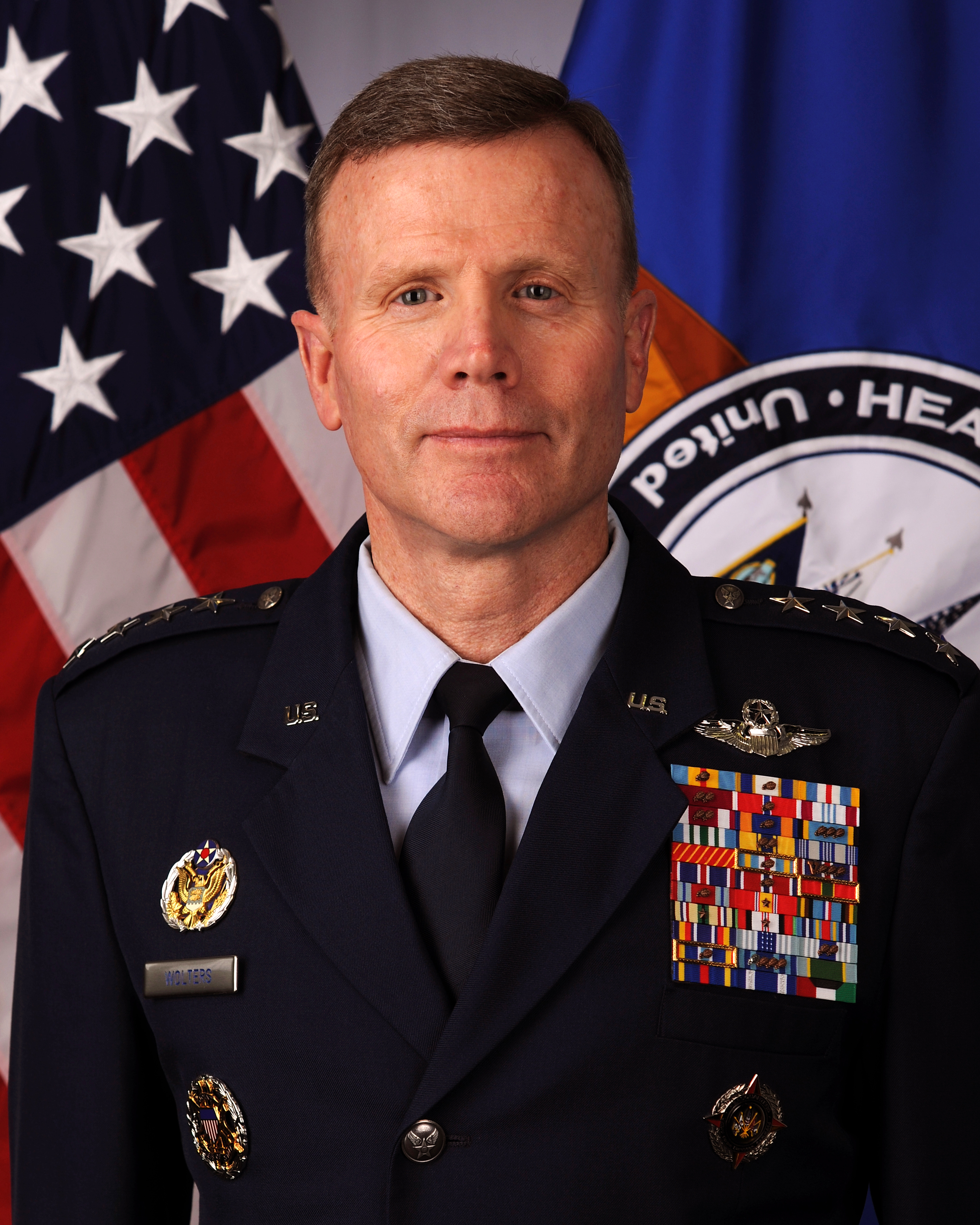 Gen. Tod D. Wolters, Commander of U.S. European Command and NATO Supreme Allied Commander Europe